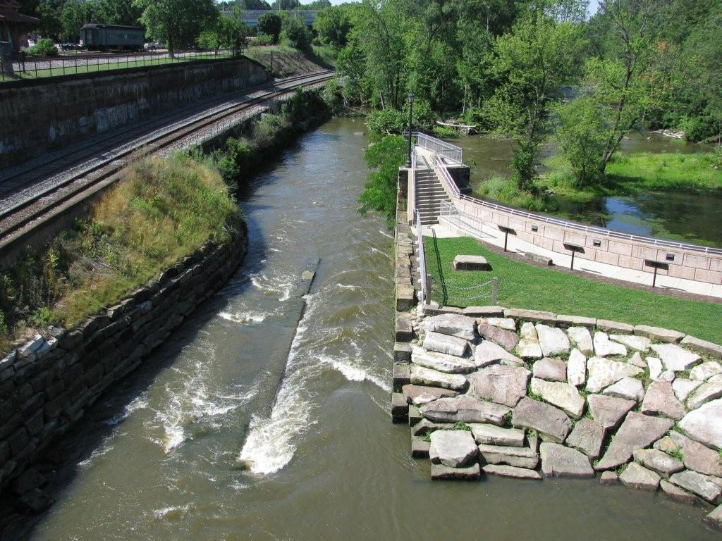 Picture of the former P&O Canal lock in downtown Kent, Ohio. In 2004 the channel was widened to allow the Cuyahoga River to be routed through the former lock, bypassing the attached dam to improve water quality. The rock wall on the far left of the channel was built from stones of the lock when it was widened in 2004. The original base of the left wall of the lock can be seen in the center of the main channel.